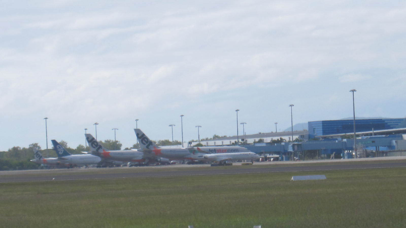 View of the international terminal at Cairns, 11 June 2010